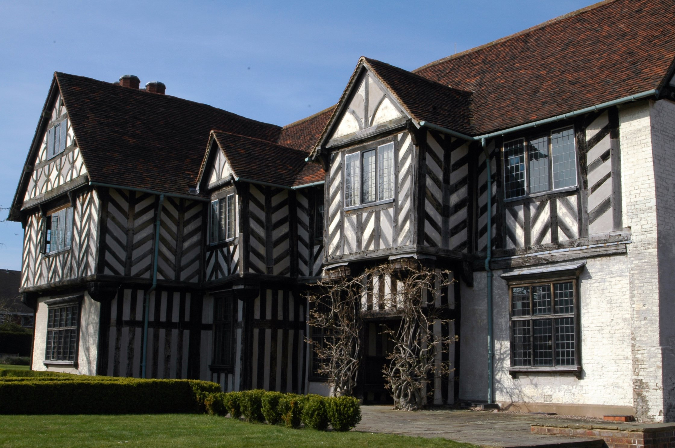 This Blakesley Hall in Yardley, Birmingham as viewed from the front. Blakesley Hall was built in 1590 by Richard Smalbroke.